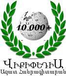 User:Ashot Martirosyan originally created this logo ane posted at the site.